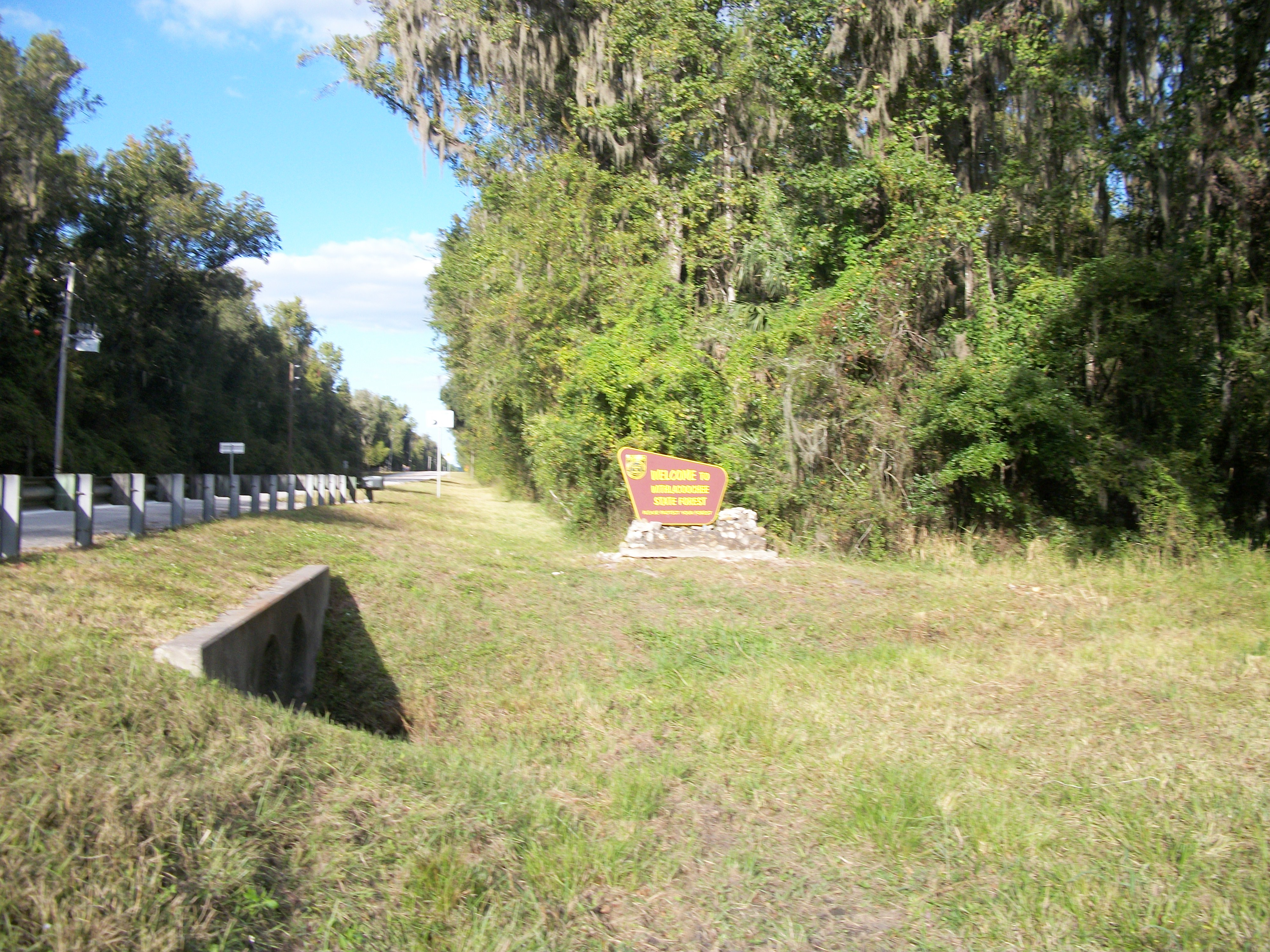 Stone-mounted Welcome shield for the Withlacoochee State Forest on the northeast corner of U.S. Route 41 and Hernando County Road 476 near Lake Lindsey, Florida. This is facing northbound traffic on US 41, and was taken from the drainage ditch on the side of the same road.